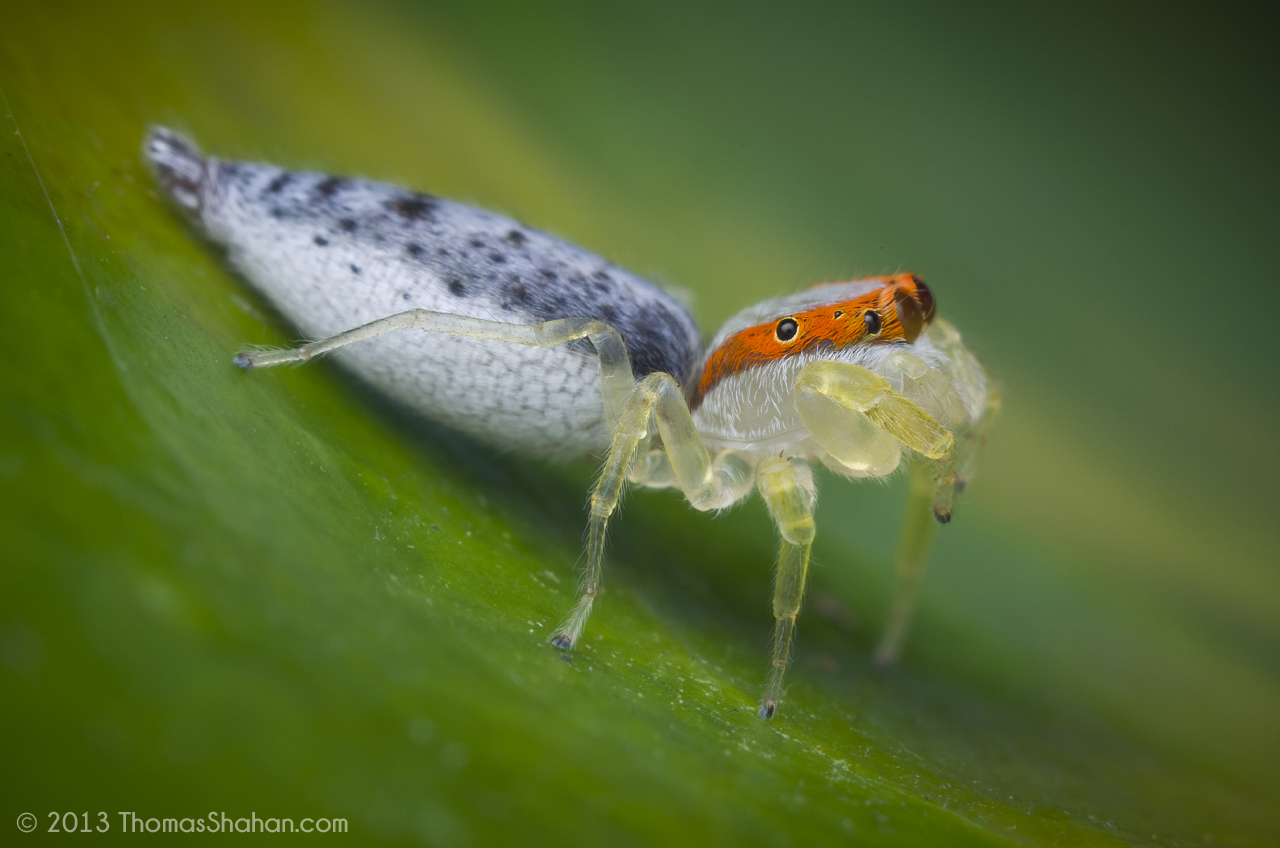 A Cotinusa jumping spider from Belize